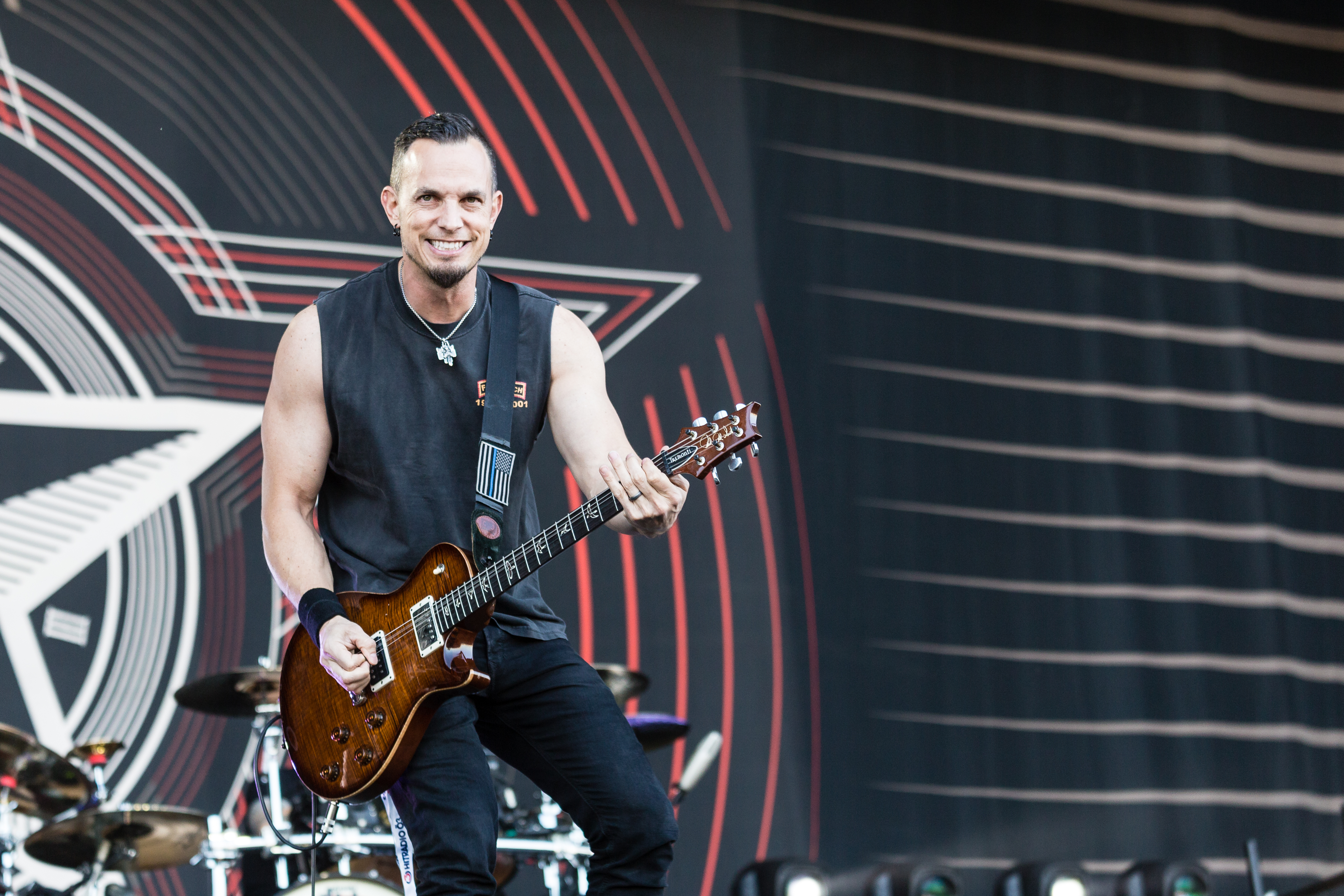 Nova Rock 2017 Mark Tremonti from Alter Bridge at the Nova Rock 2017